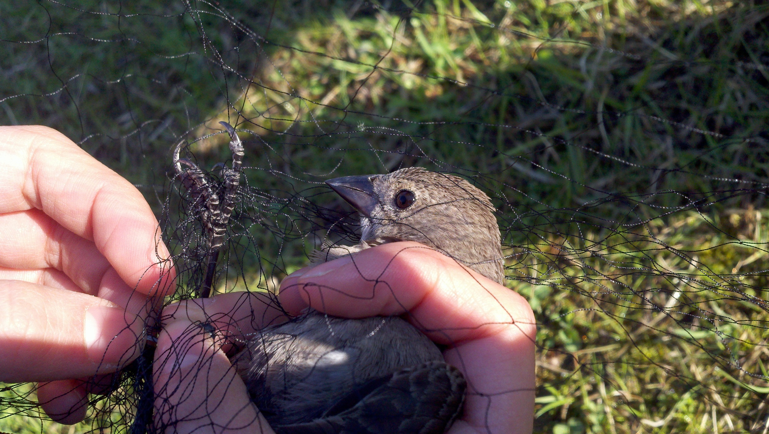 A female Brown-headed Cowbird trapped in a mistnet. The bird is being removed from the net. This picture was taken during research at Iverson's Woods with Earlham College.